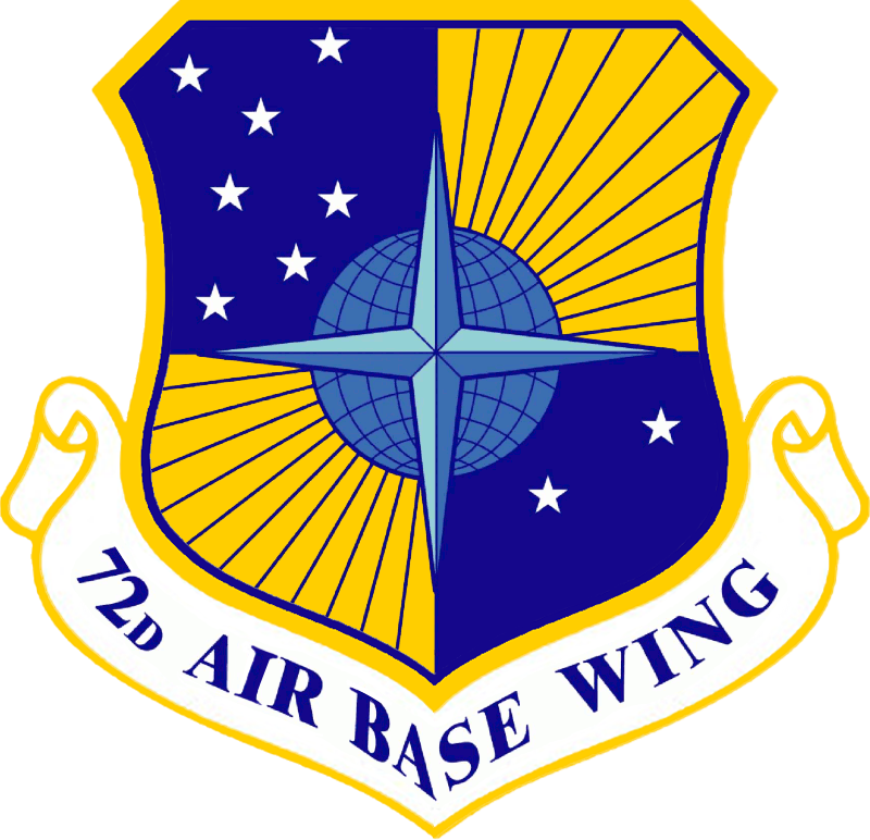 Emblem of the 72d Air Base Wing, a wing of the United States Air Force